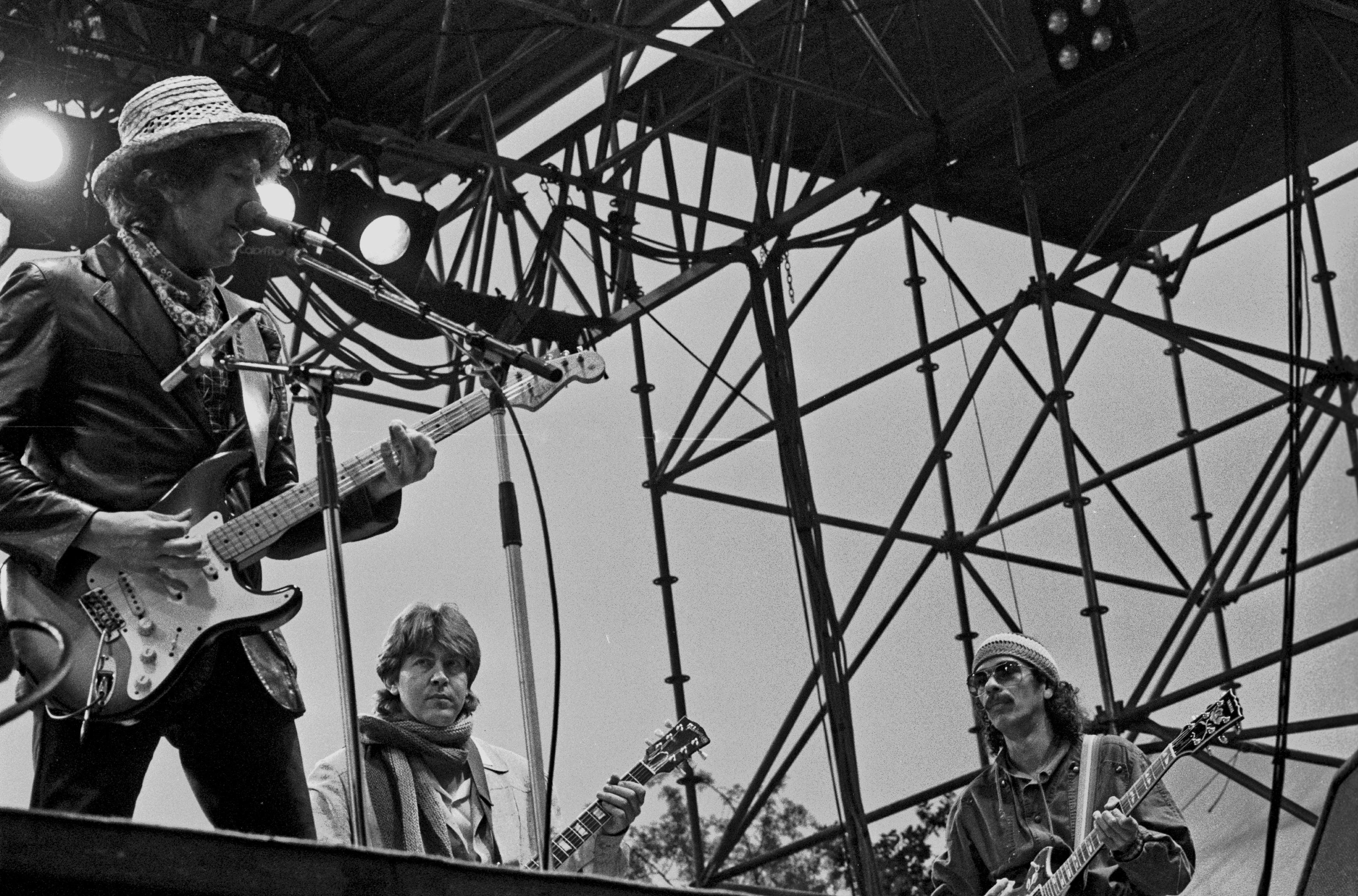 Bob Dylan performing with Joan Baez, Santana und Ex-Rolling-Stone Mick Taylor, Hamburg, May 1984